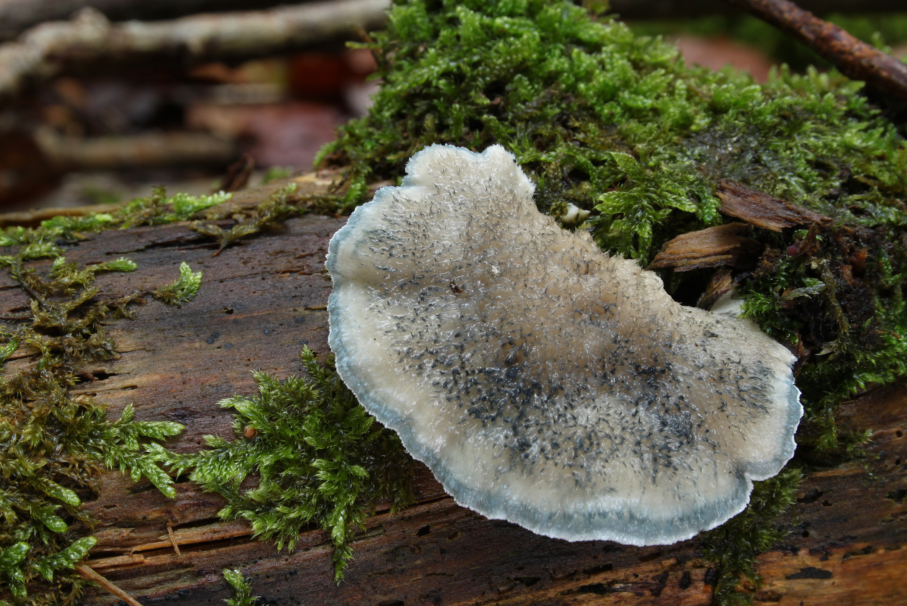 Postia caesia syn. Bjerkandera caesia, Boletus caesius, Cyanosporus caesius, Leptoporus caesius, Oligoporus caesius, Polyporus caesius, Polystictus caesius, Sebacina laciniata subsp. caesia, Spongiporus caesius or Tyromyces caesius, Family: Fomitopsidaceae, Location: Germany, Ringingen